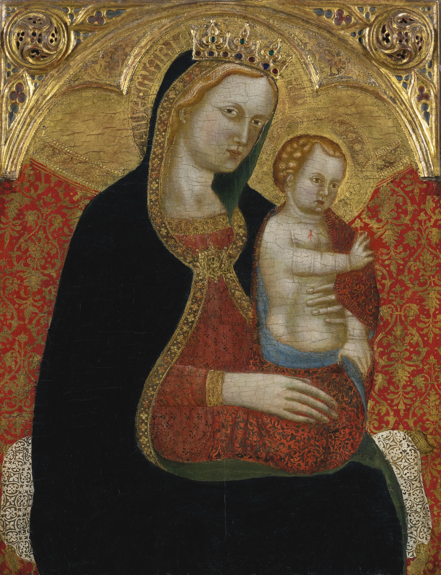 CECCO DI PIETRO, MADONNA AND CHILD, 14th century, Sotheby's